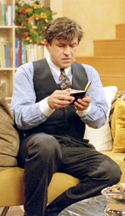 Bartho Braat